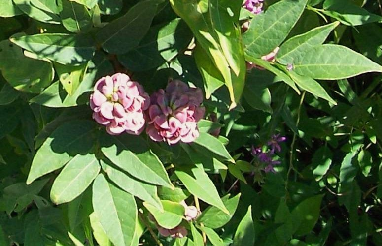 Kittery Point Apios americana, sometimes called the potato bean, hopniss, Indian potato or groundnut (but not to be confused with other plants sometimes known by the name groundnut) is a perennial vine native to eastern North America, and bears edible beans and large edible tubers. It grows to 3-4 m long, with pinnate leaves 8-15 cm long with 5-7 leaflets. The flowers are red-brown to purple, produced in dense racemes. The fruit is a legume (pod) 6-12 cm long. The tubers are crunchy and nutritious, with a high content of starch and especially protein. The plant was one of the most important food plants of pre-European North America, and is now being developed for domestication.